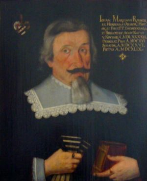 Johann Martin Rauscher